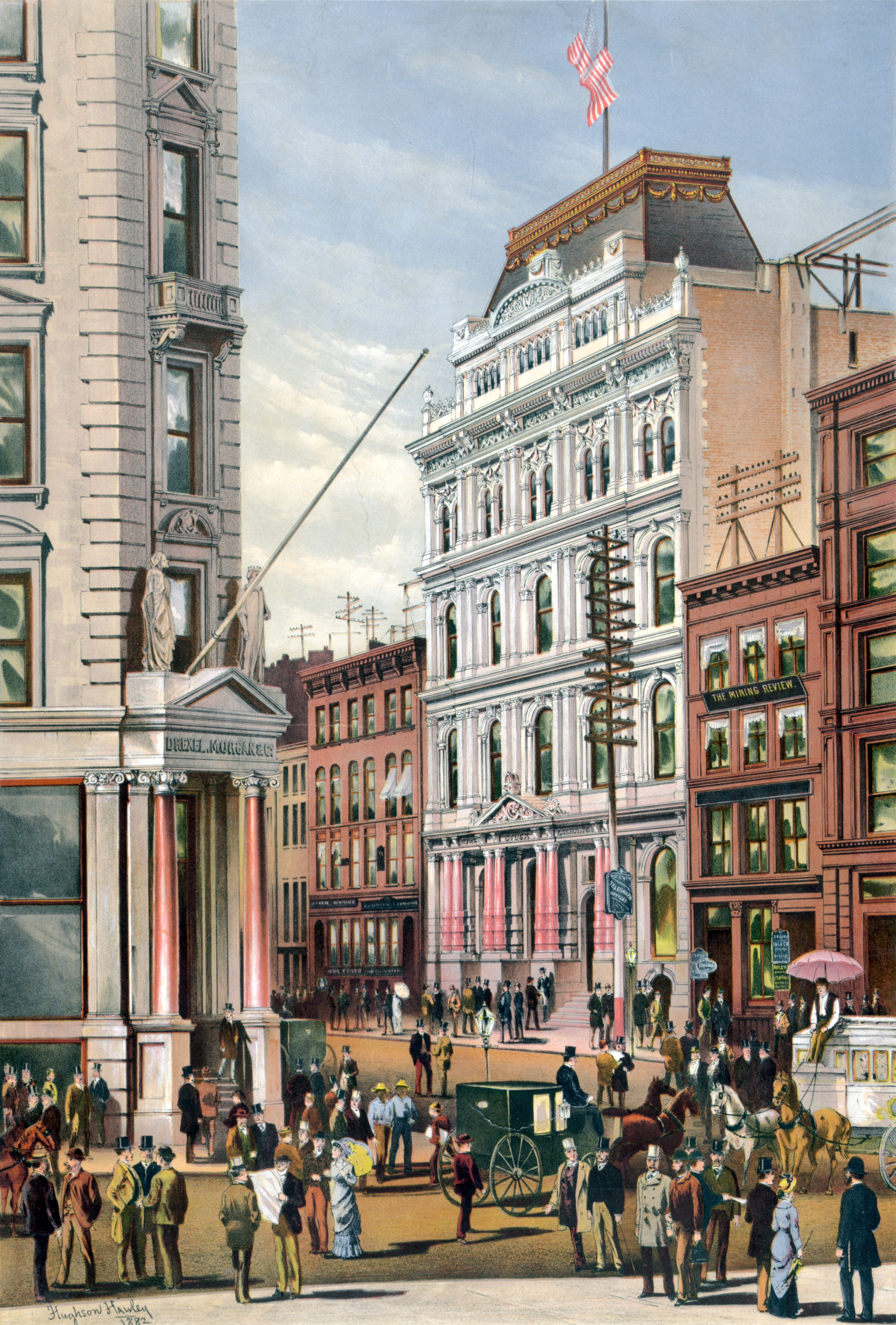 The New York Stock Exchange in 1882 by American illustrator and scenic artist Hughson Hawley (1850-1936).